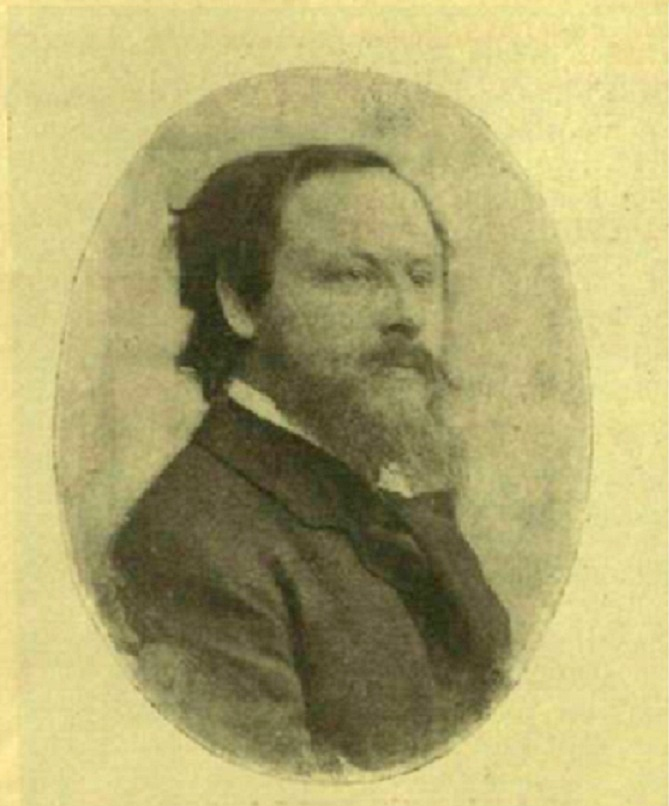 Portrait of József Róna